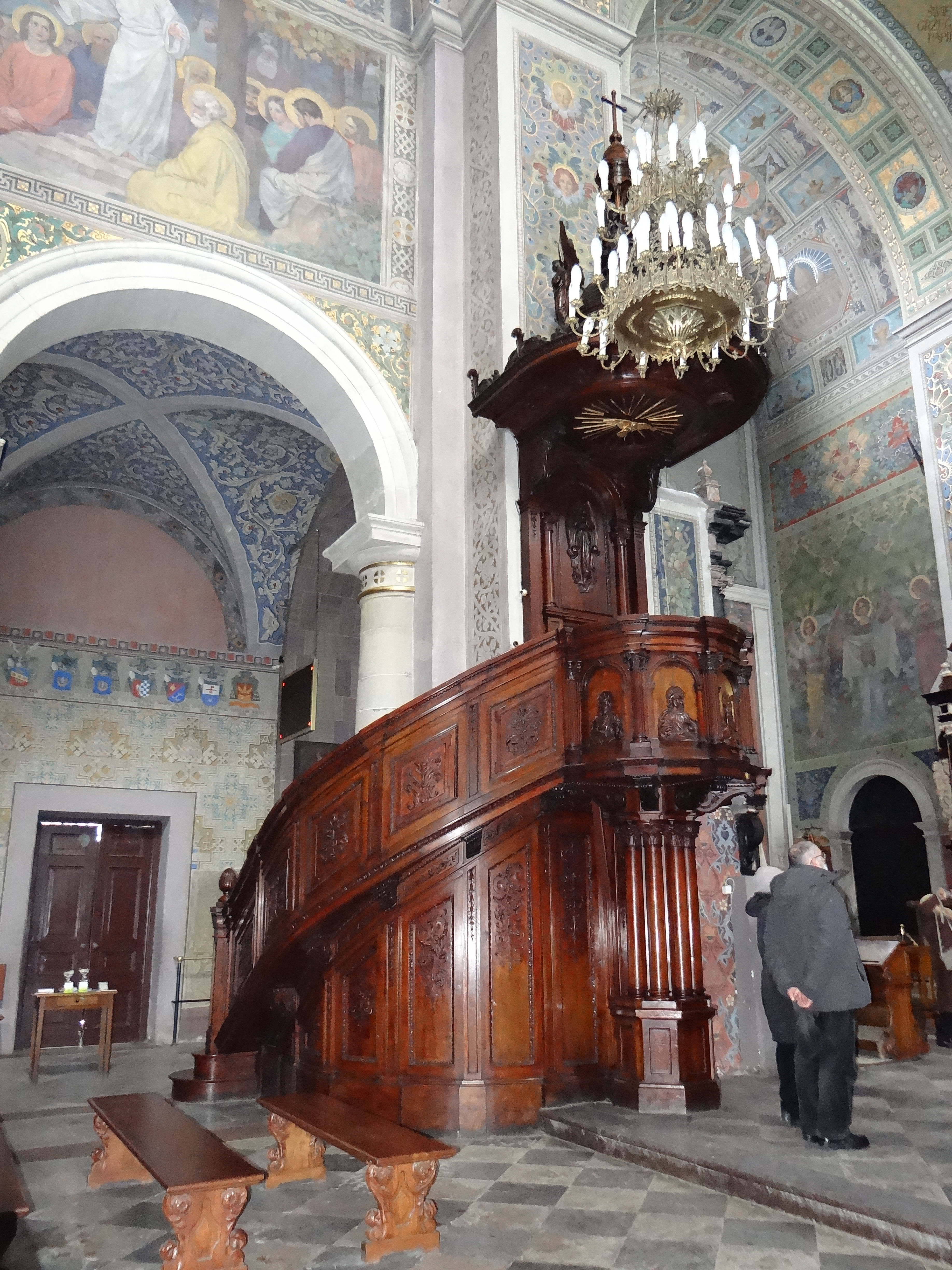 Pulpit of Płock Cathedral